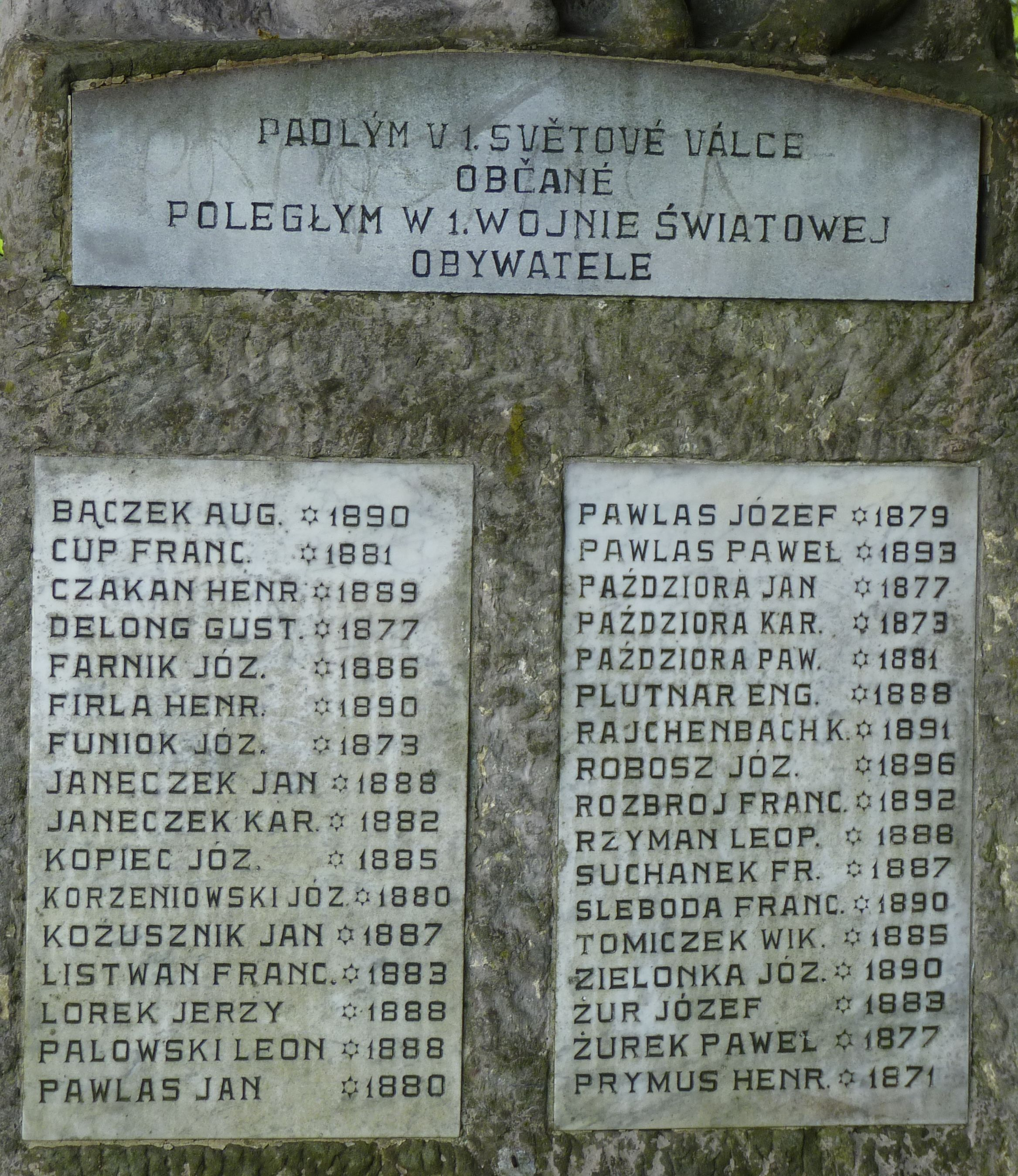 Horní Suchá (Sucha Górna). Karviná District, Moravian-Silesian Region, Czech Republic